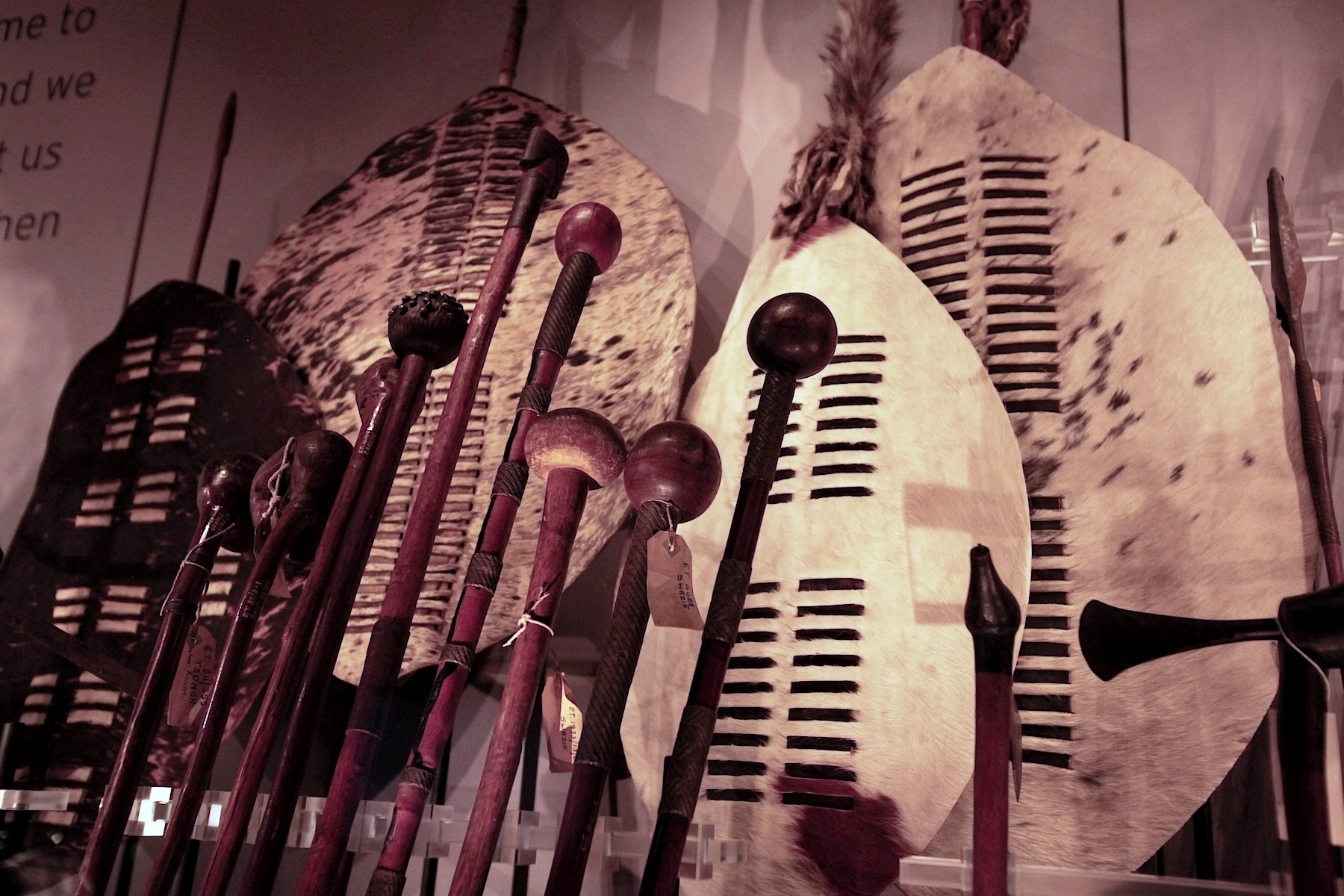 Freedom Park, Salvokop, Pretoria This media shows a South African Protected Site with SAHRA file reference NEW.